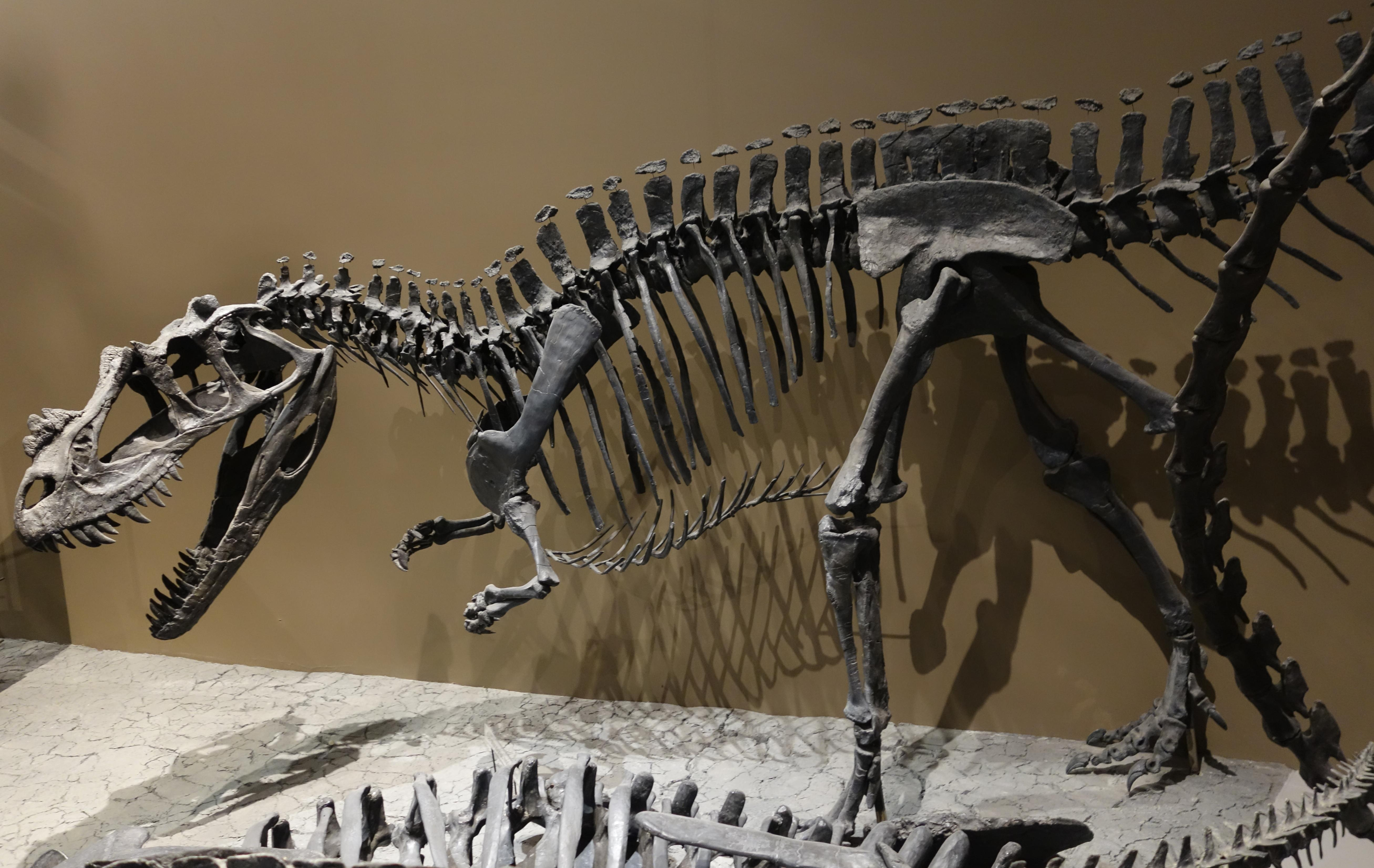 Cast of Ceratosaurus from the Cleveland Lloyd Quarry, Utah, on display at the Natural History Museum of Utah, Salt Lake City.